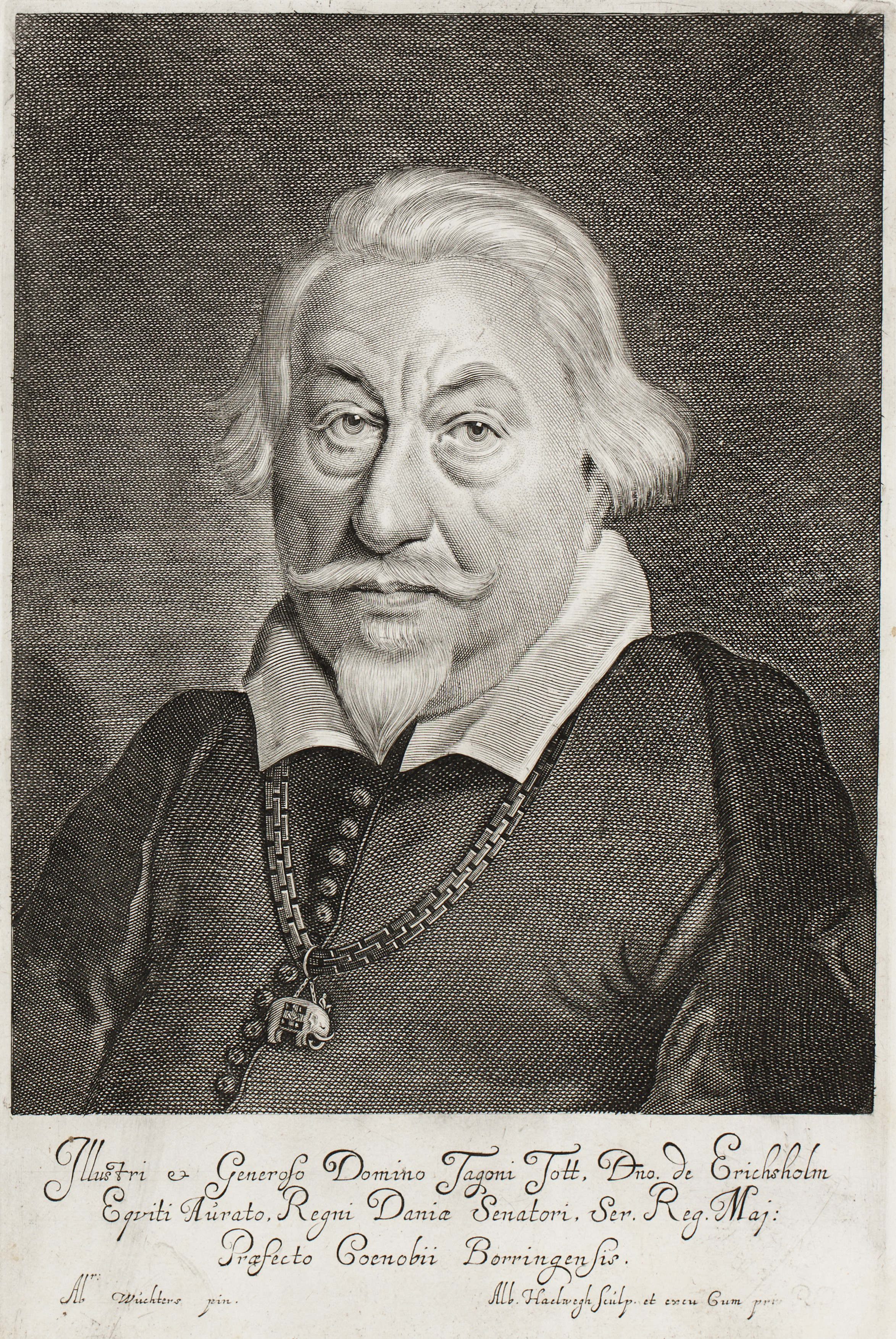 Note: For documentary purposes the original description has been retained. Factual corrections and alternative descriptions are encouraged separately from the original description.Porträtt av Tahe Thott till Eriksholm, riksråd (1624), 1650-tal. Nyckelord: Herrar, 1600-tal, Skägg, Herrmode, Frisyrer, Gubbe, Föremålsbild, Elefantorden, Riksråd